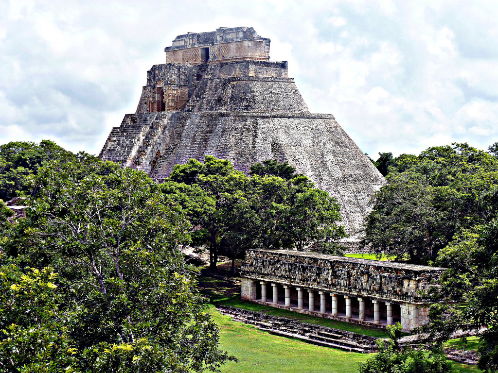 Uxmal